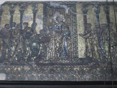 The Church of the Nativity in Bethlehem. Mosaic, 12. cent. / Crkva Rođenja Isusova u Betlehemu. Mozaik, 12. st.